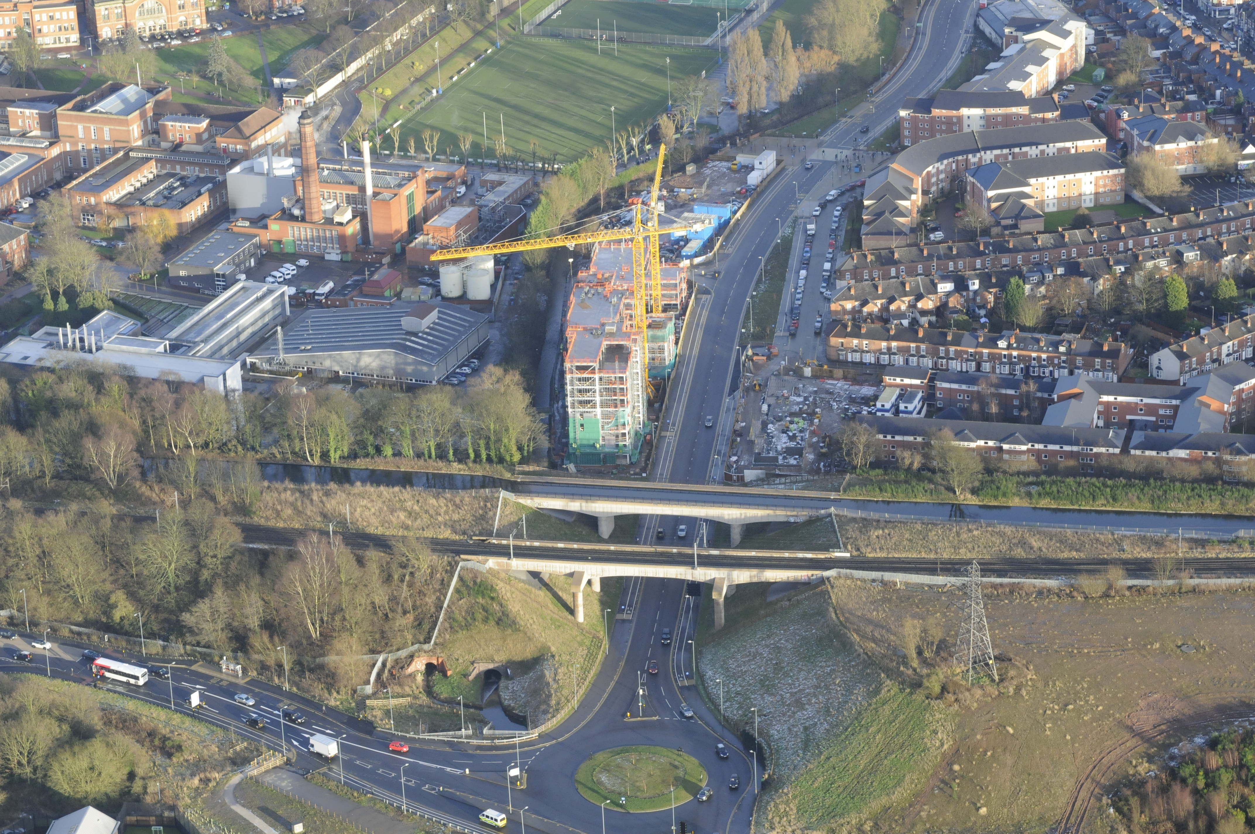 The rerouted A38 passing under the Cross City Line and Canal near Queen Elizabeth Hospital, Selly Oak, Birmingham